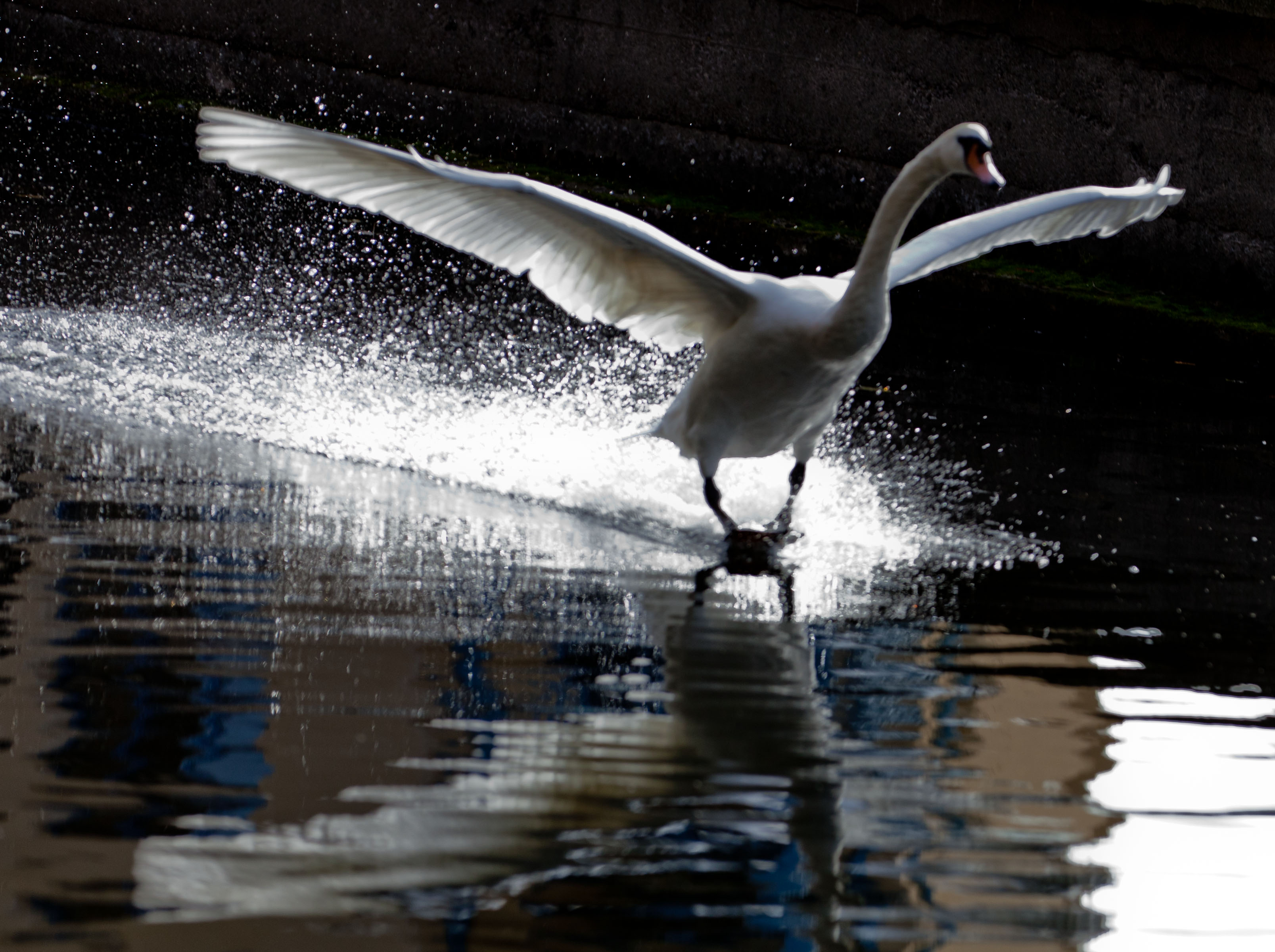 A Mute Swan landing on the water of Grand Canal, Dublin, Ireland.